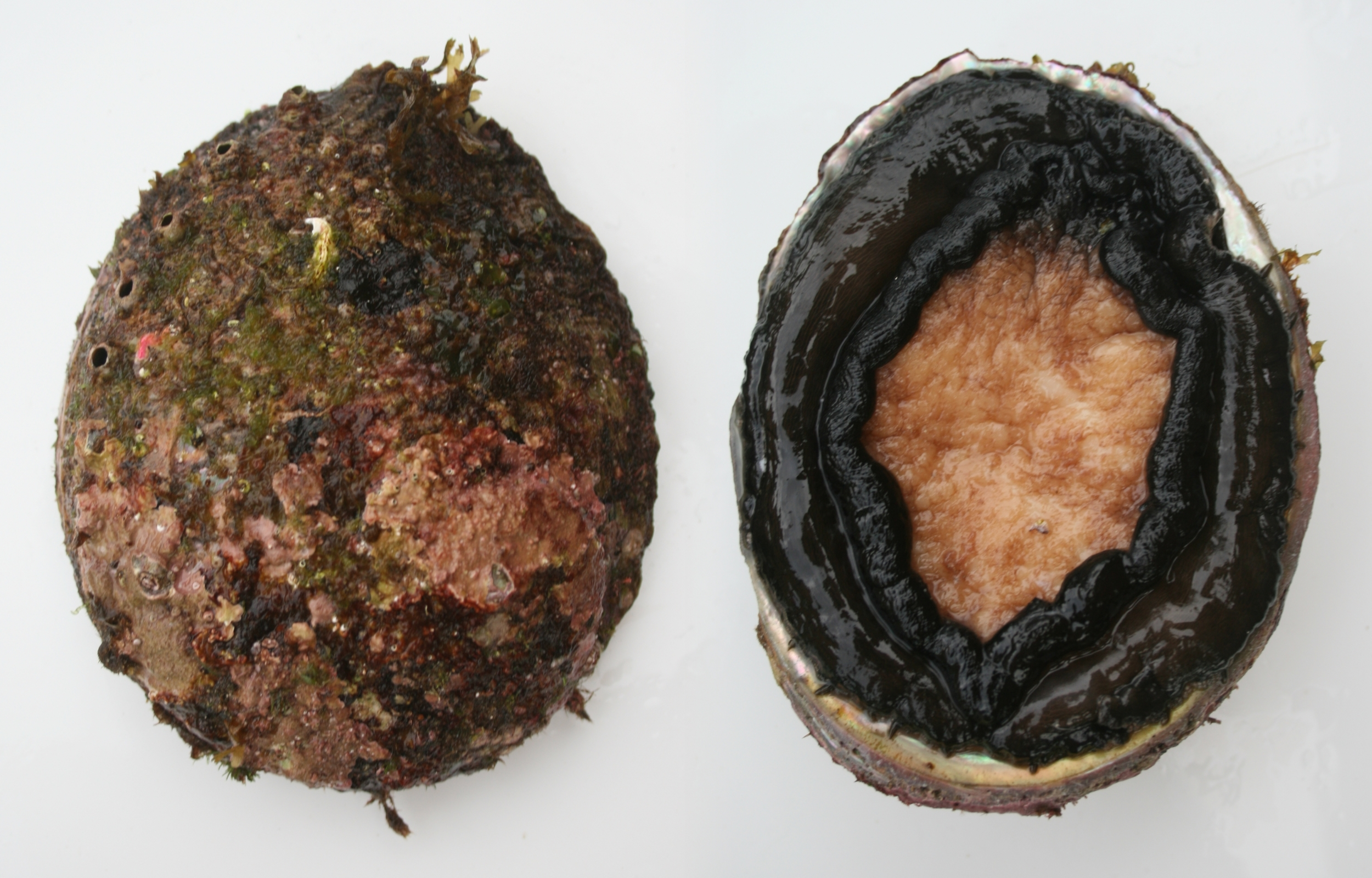 Blacklip abalone (Haliotis rubra), still alive, harvested from the south coast of New South Wales (NSW), Australia. Scale: shell length = 12.3 cm. Due to over-harvesting, abalone are subject to a strict bag limit of two in NSW (with a fishing licence), and may only be taken if over 11.7 cm.